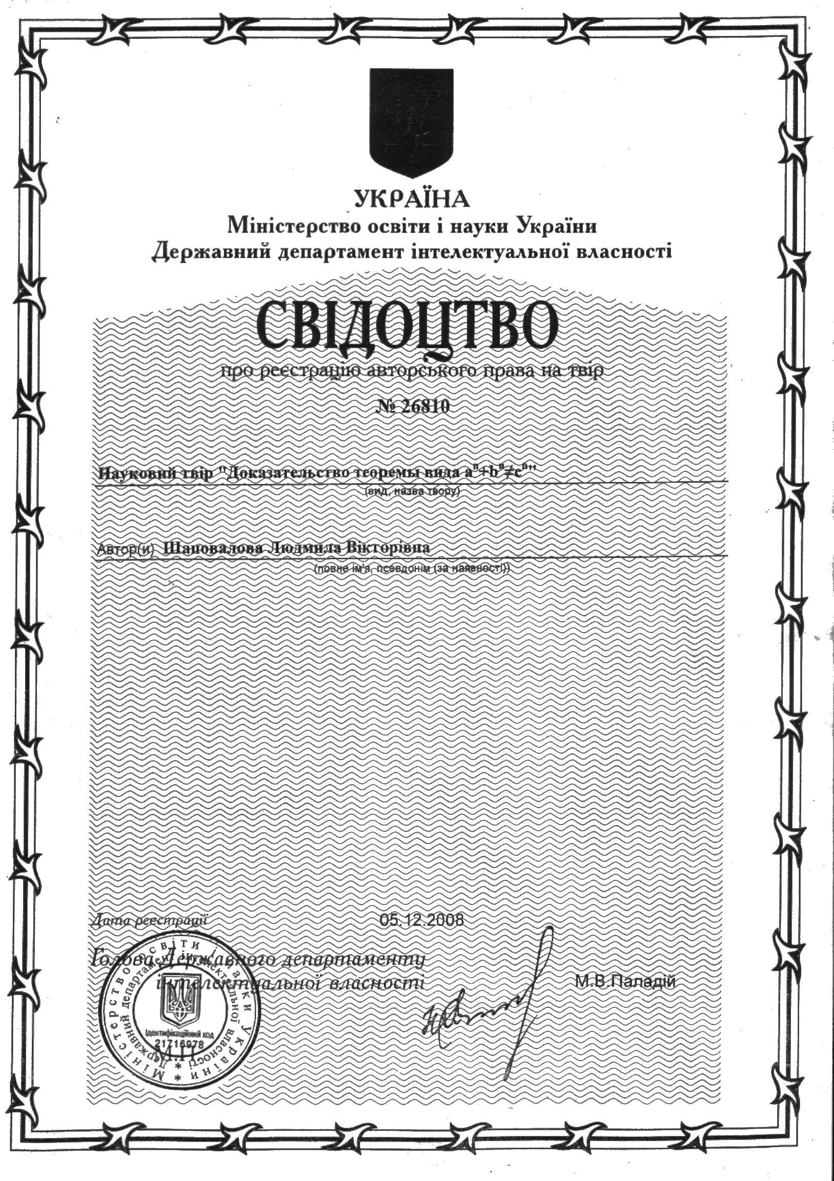 Copyright certificate by Ukraine officials for the "proof" of the Fermat Last Theorem "proof".